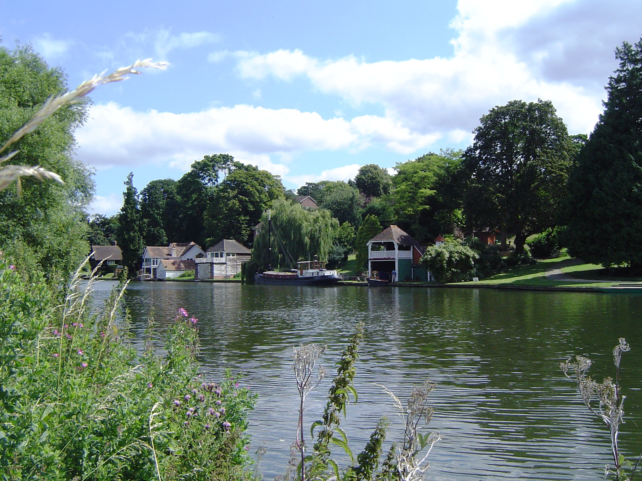 Reach above Goring Lock